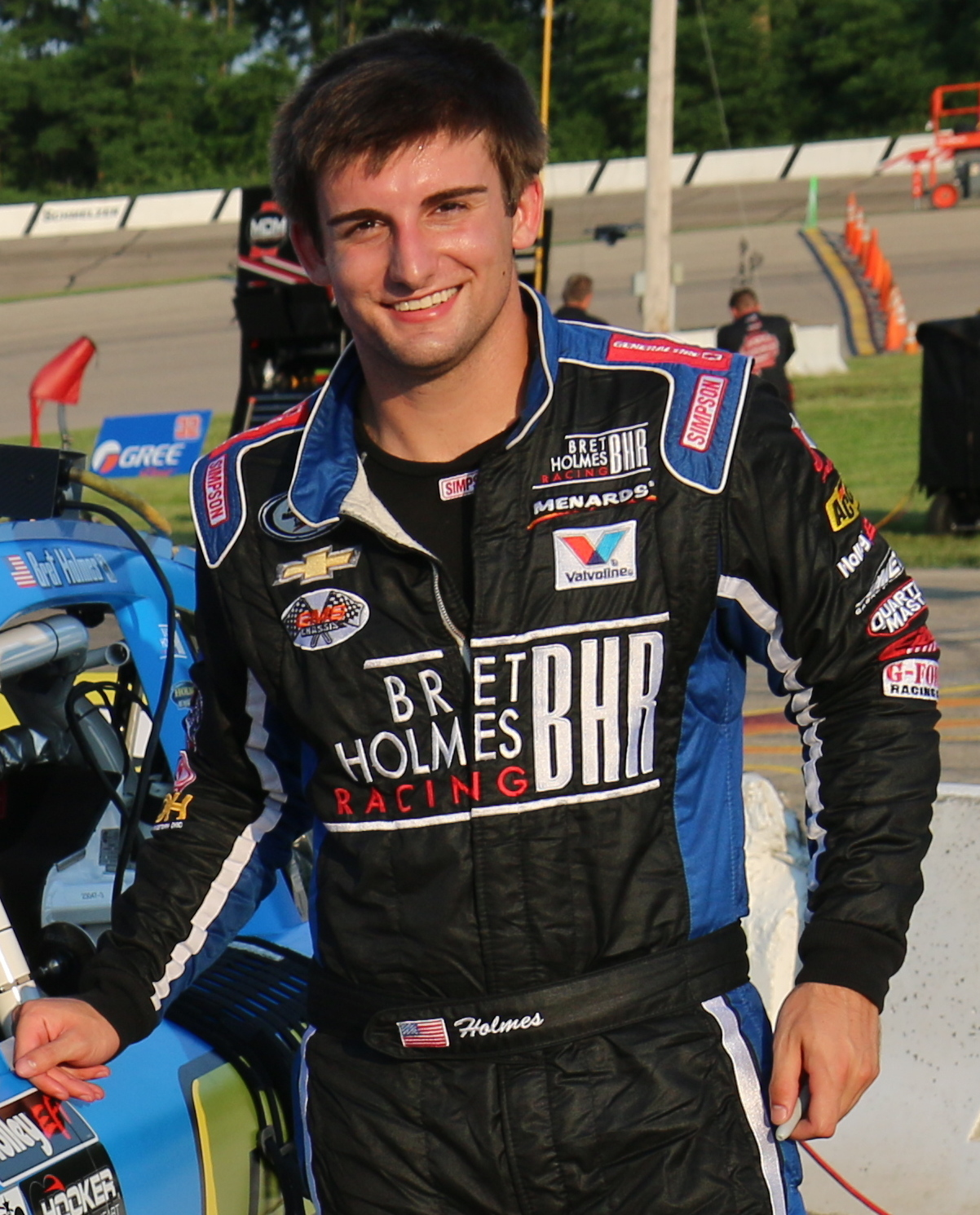 ARCA driver Brett Holmes posing for a photograph at Madison International Speedway.